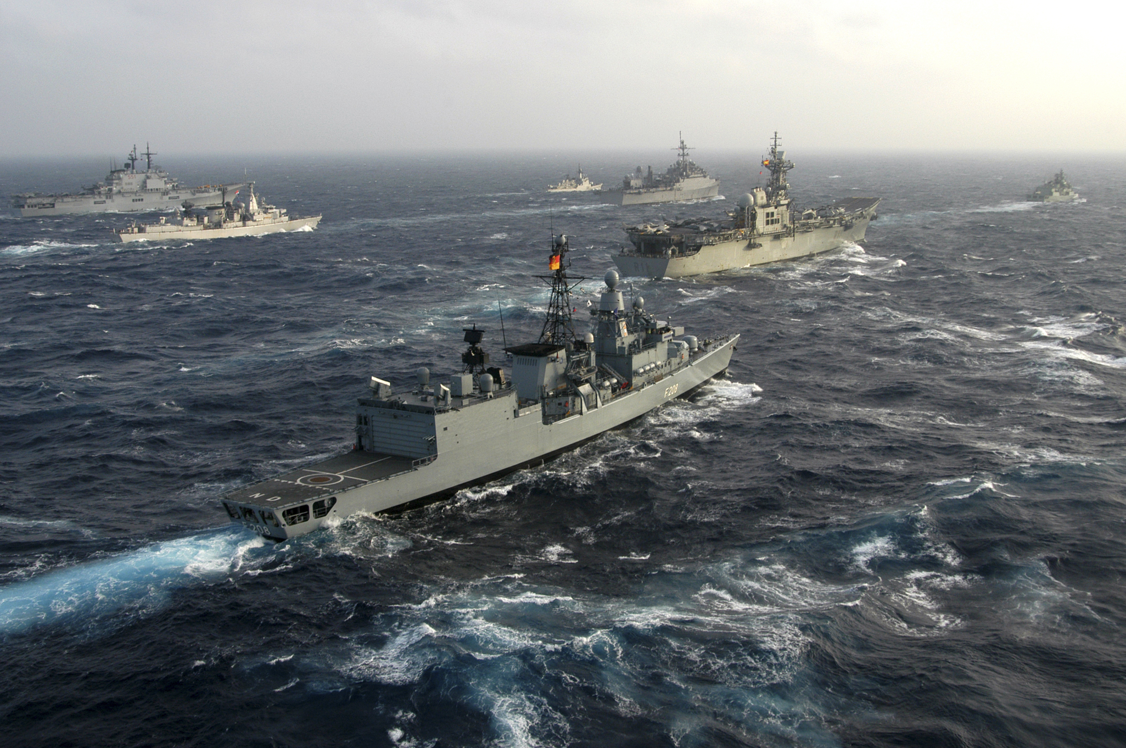 Atlantic Ocean (July 12, 2004) - The German frigate FGS Niedersachsen (F 208), the Dutch frigate HNLMS Jacob Van Heemskerck (F 812), the Italian aircraft carrier ITS Giuseppe Garibaldi (C 551), the Moroccan frigate RMNS Lieutenant Colonel Errhamani (F 501), USS La Salle (AGF 3) and the Spanish aircraft carrier Principe De Asturias (R 11) steam through the Atlantic Ocean while participating in Majestic Eagle 2004. Majestic Eagle is a multinational exercise being conducted off the coast of Morocco. The exercise demonstrates the combined force capabilities and quick response times of the participating naval, air, undersea and surface warfare groups. Countries involved in the NATO led exercise include the United Kingdom, Morocco, France, Italy, Portugal, Spain, and Turkey. Truman's participation in Majestic Eagle is part of her scheduled deployment supporting the Navy's new fleet response plan (FRP) Summer Pulse 2004, the simultaneous deployment of seven carrier strike groups (CSGs), demonstrating the ability of the Navy to provide credible combat across the globe, in five theaters with other U.S., allied, and coalition military forces. U.S. Navy photo by Photographer's Mate Airman Rob Gaston (RELEASED) For more information go to